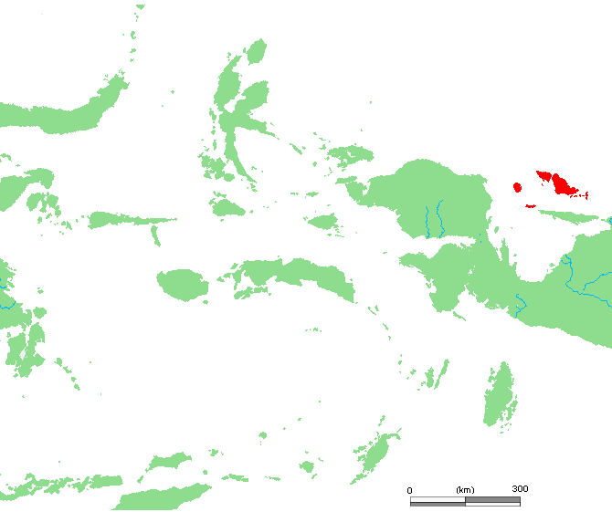 ID Schouten islands.PNG